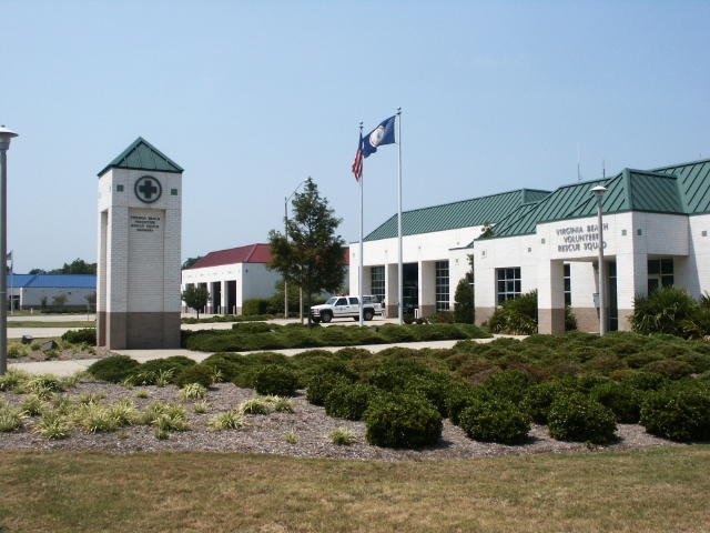 The front entrance to our rescue squad building located off of Virginia Beach Boulevard at the Virginia Beach Oceanfront.